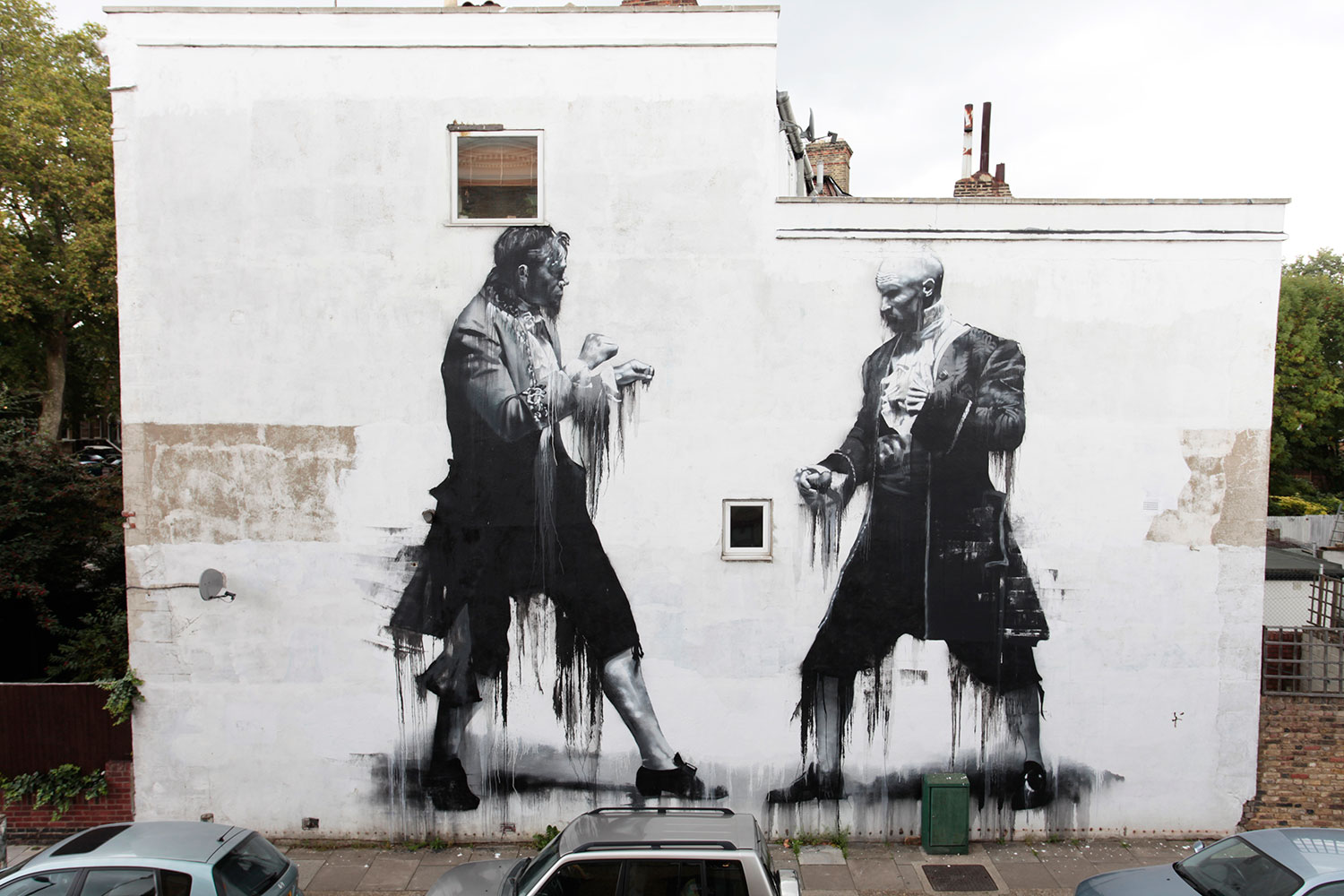 Part of Dulwich Outdoor Gallery, Harrington's fighting men in Regency continue their fight on 4 more walls in the USA and Costa Rica. The bald man wins.